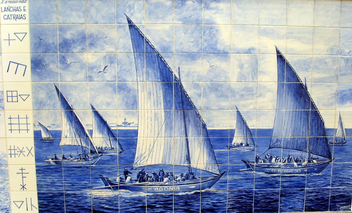 Povoa boats (lanchas and catraias).